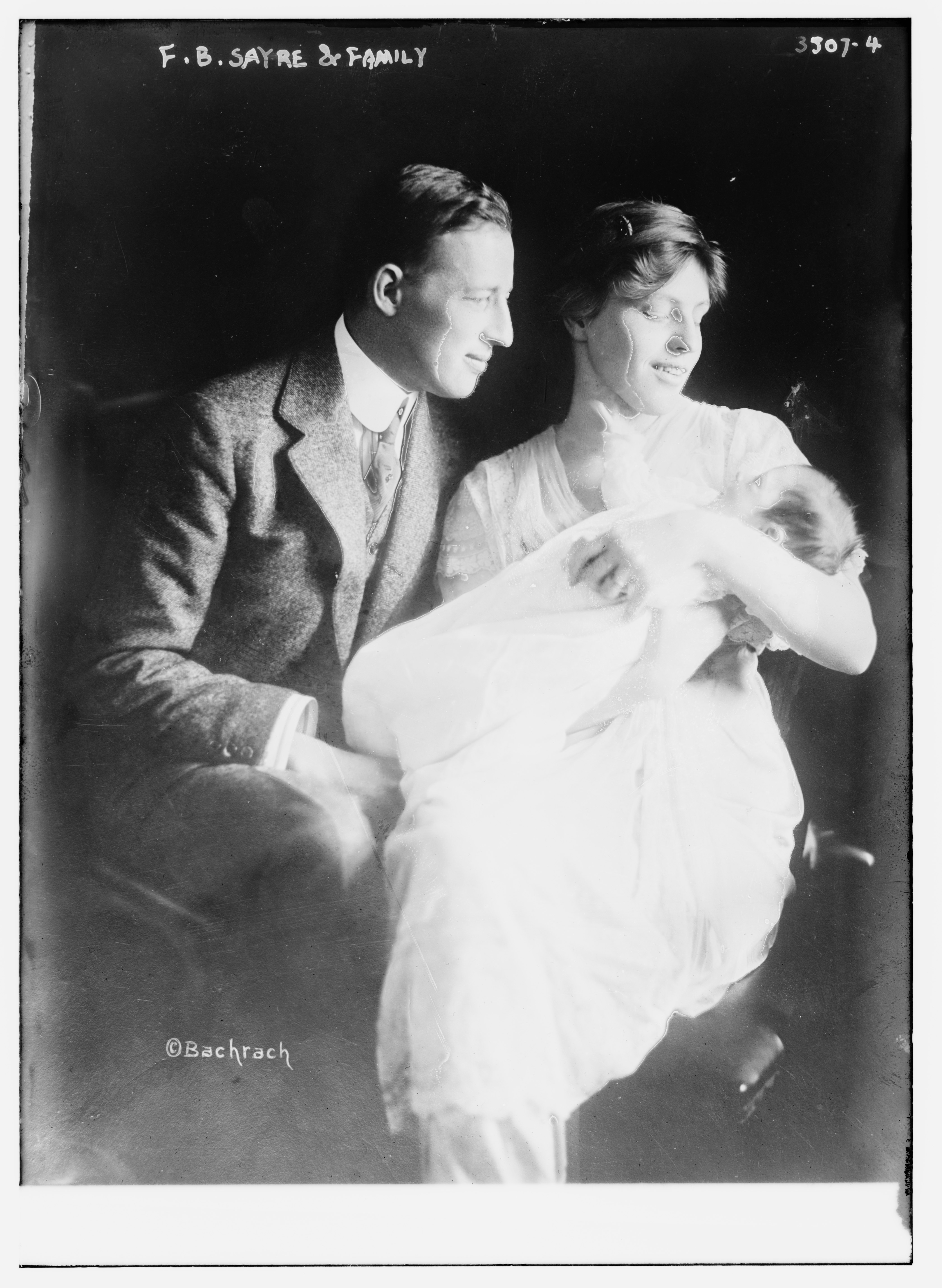 Title: F.B. Sayre and family Abstract/medium: 1 negative : glass ; 5 x 7 in. or smaller.